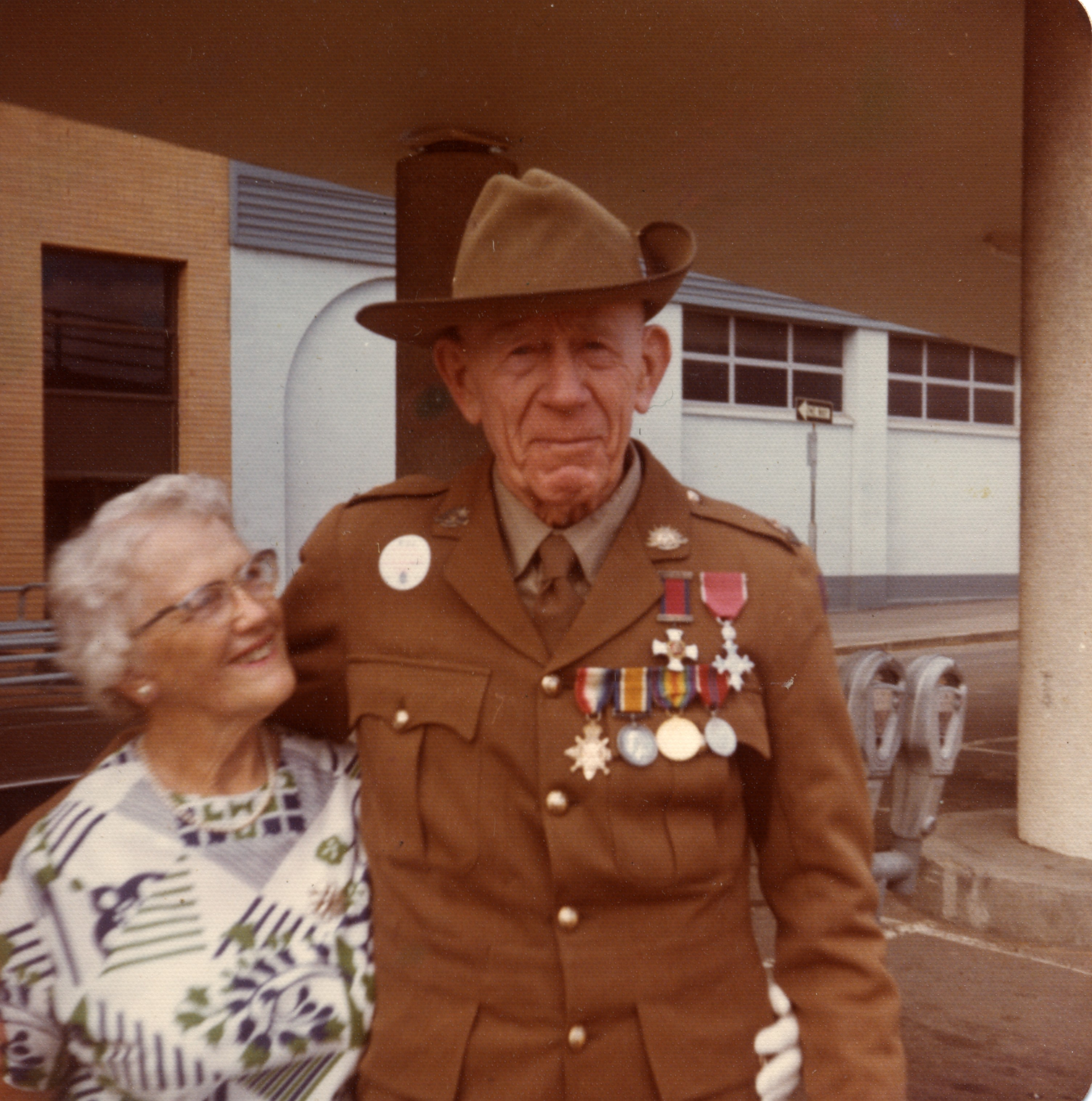 Major Percival Savage and his wife Marjorie Savage ANZAC day 1974 Brisbane Australia